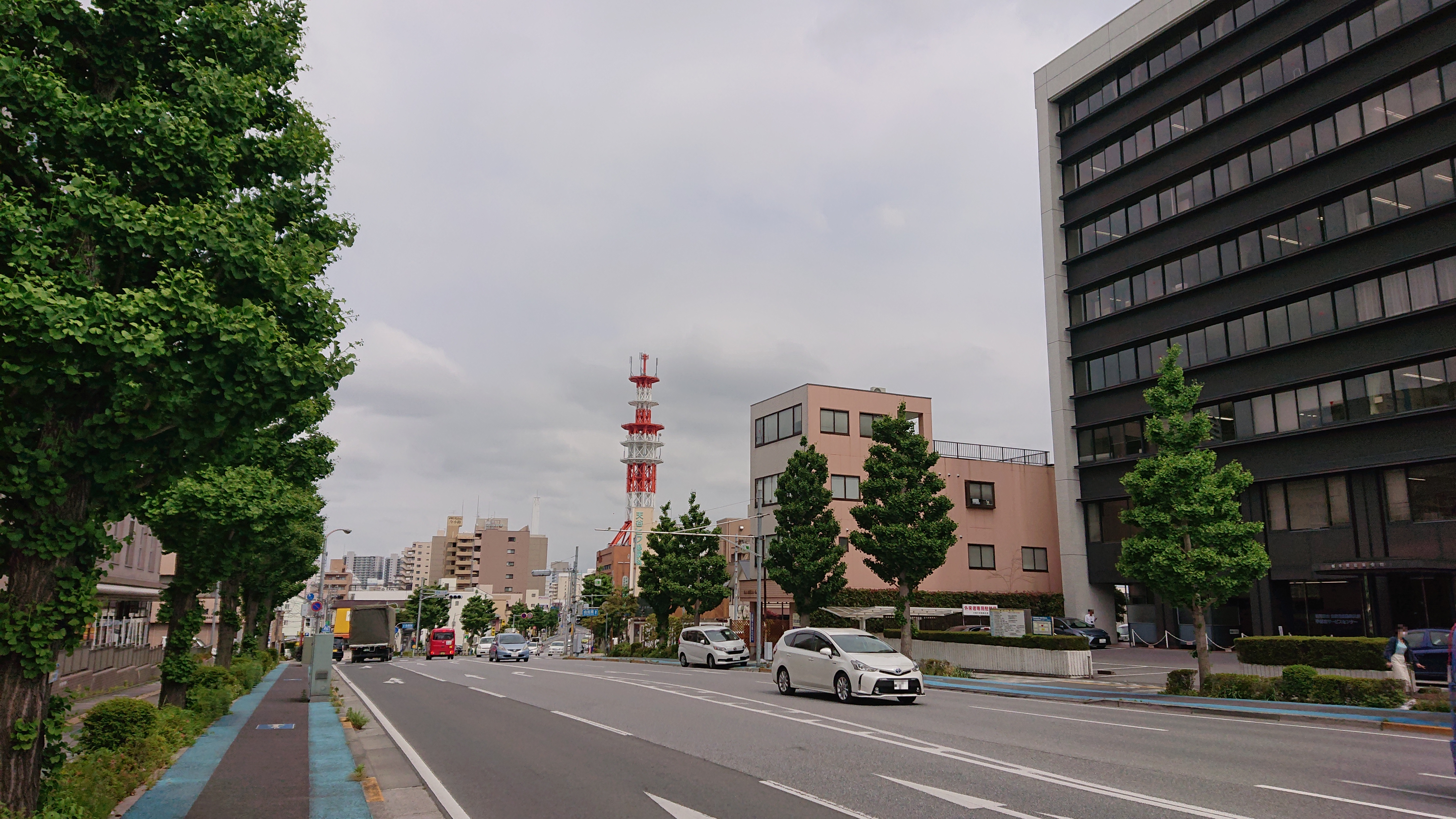 This is Icho dori or Ginkgo street in Utsunomiya, Tochigi, Japan.